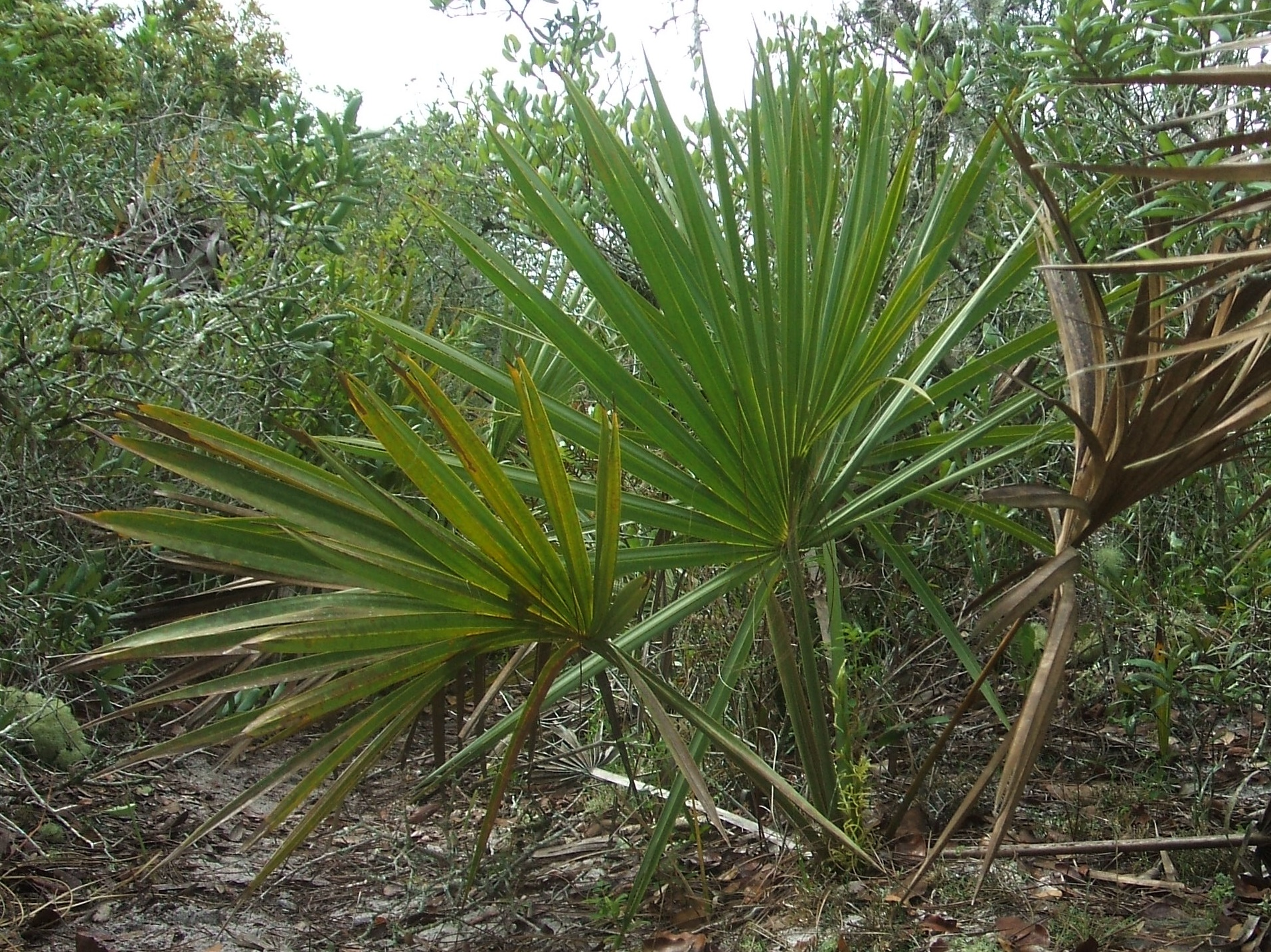 Sabal etonia, the scrub palmetto, at Archbold Biological Station, Florida, USA